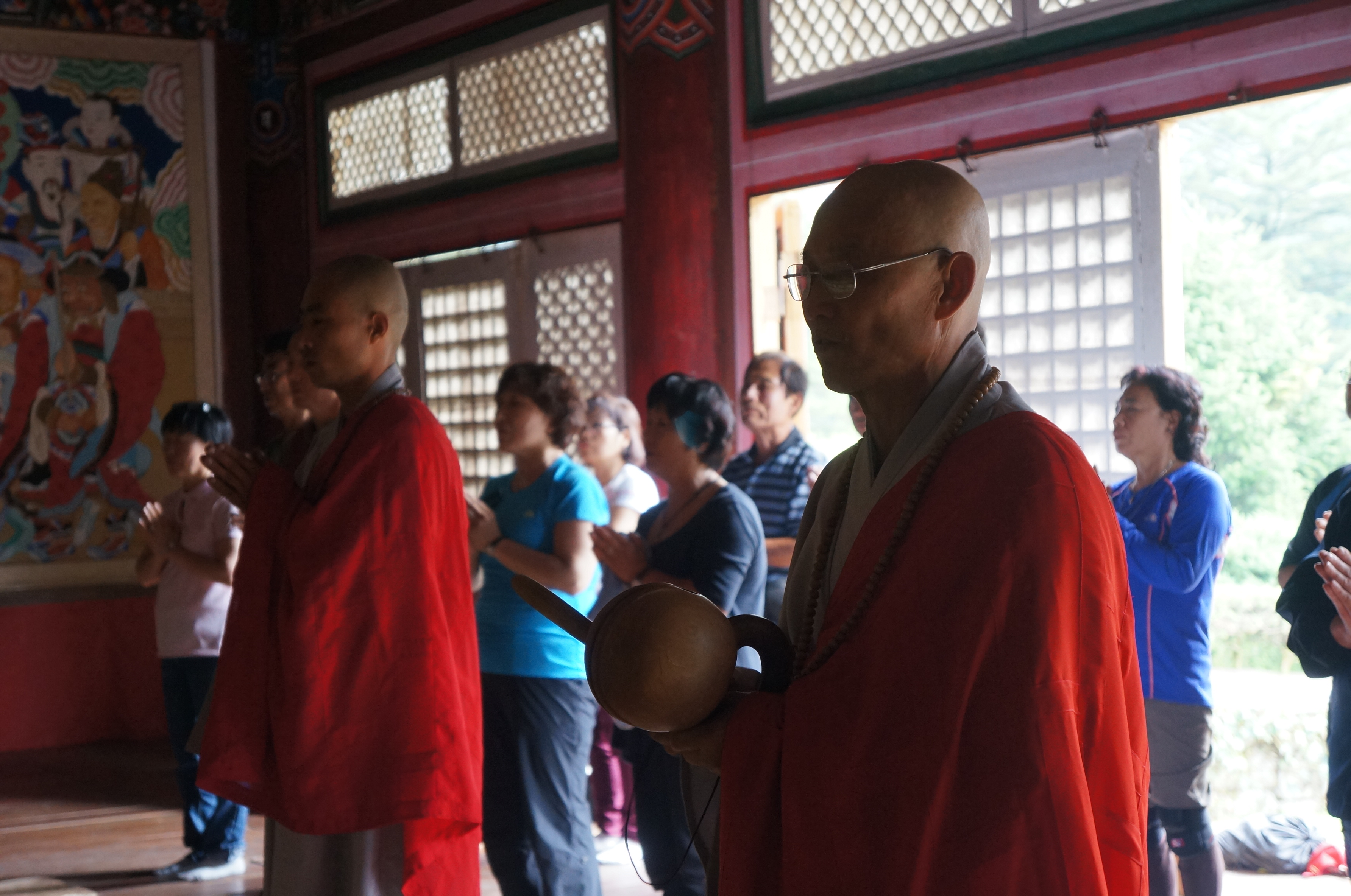 묘향산보현사 in DPRK For more information on this temple, visit